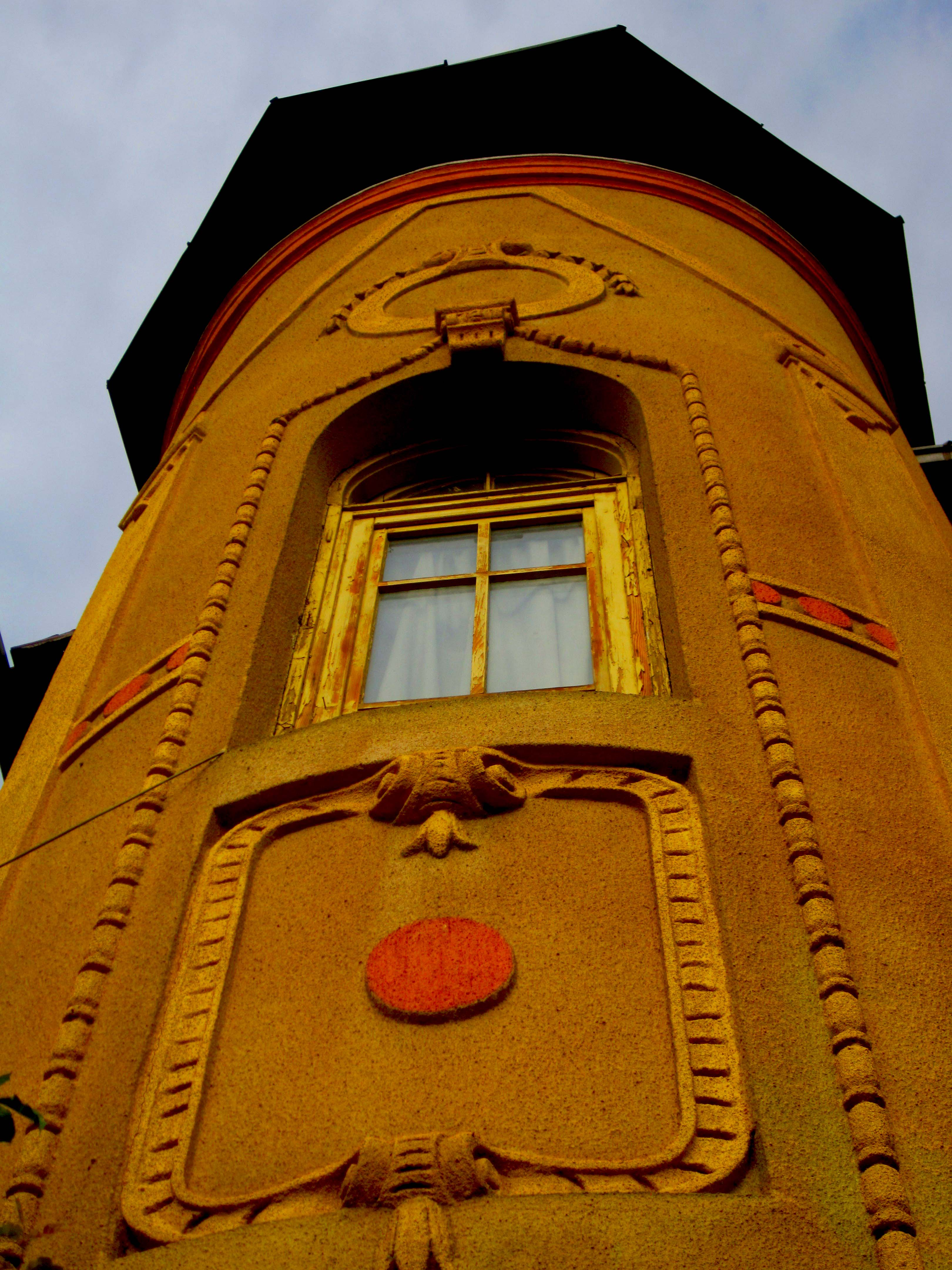 Alimbeg house is civilian healthcare facility or historic house which was earlier hospital in Tetovo